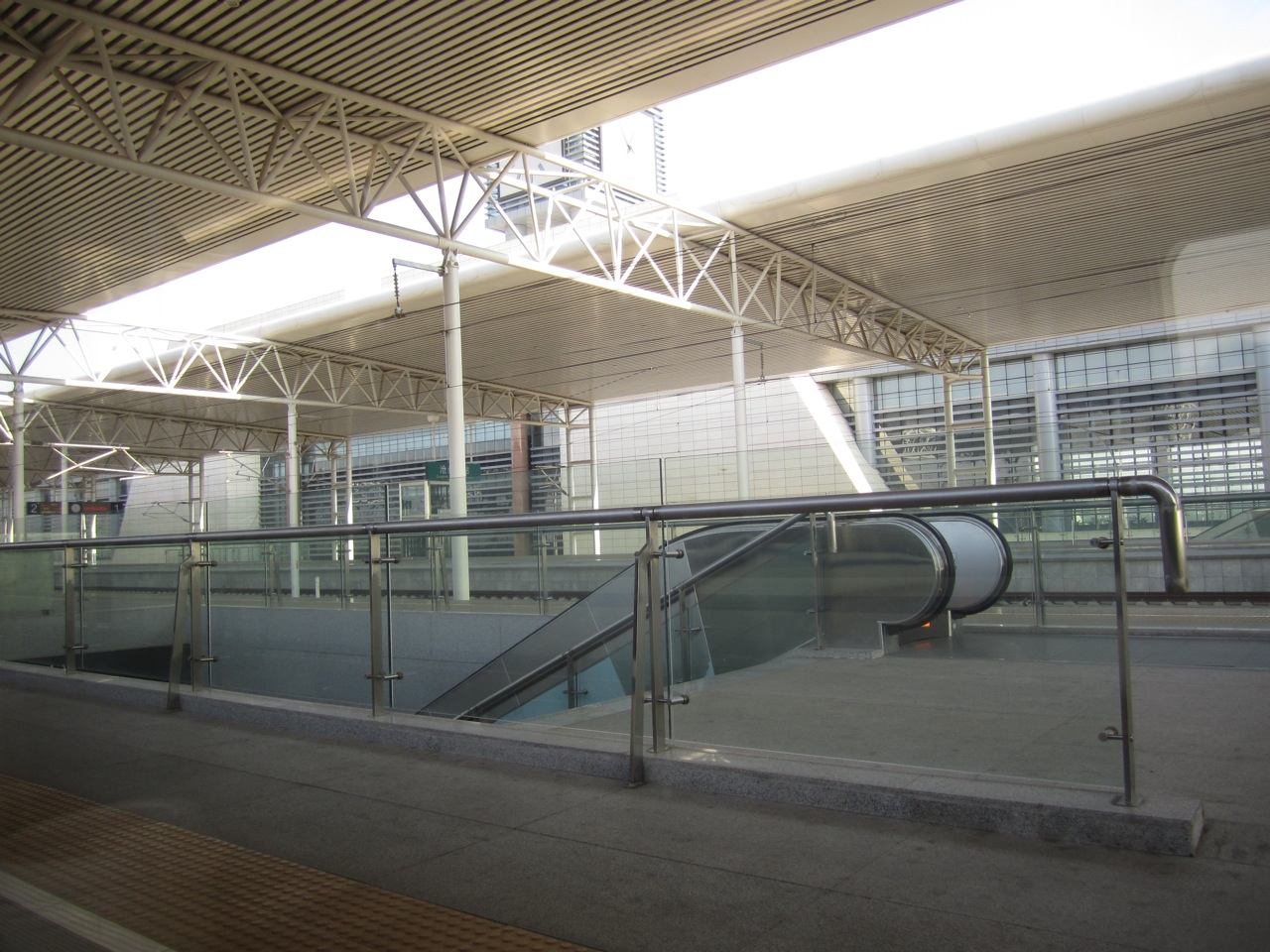 Platforms at the Cangzhou West Railway Station